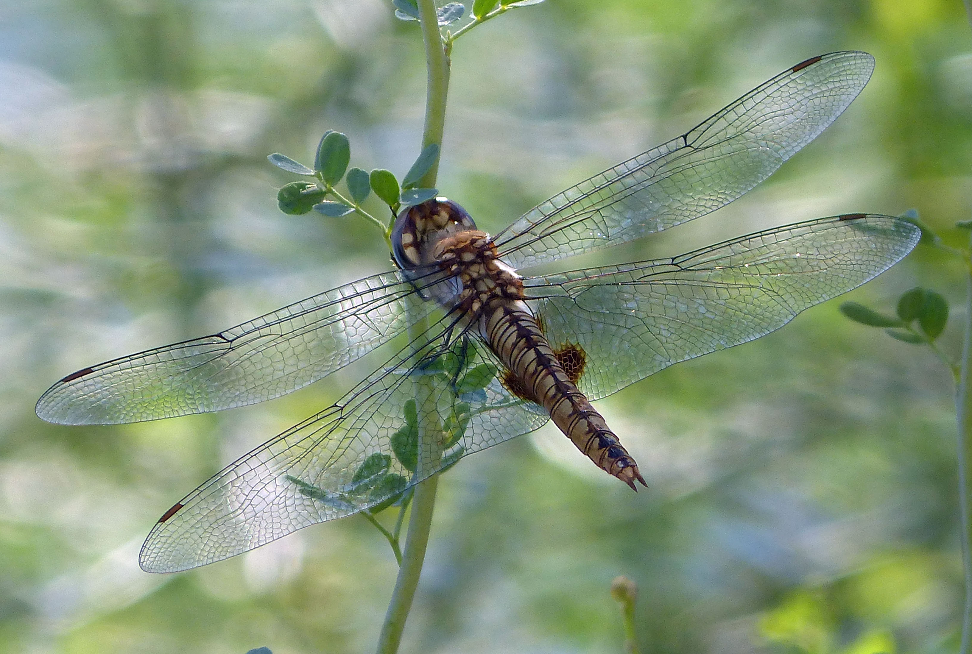 Spot-winged Glider - Pantala hymenaea